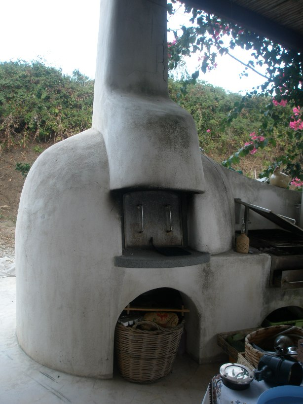 Traditional oven of the Aeolian Islands, Italy